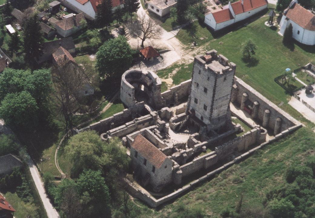 Castle - Nagyvázsony - Hungary - Europe